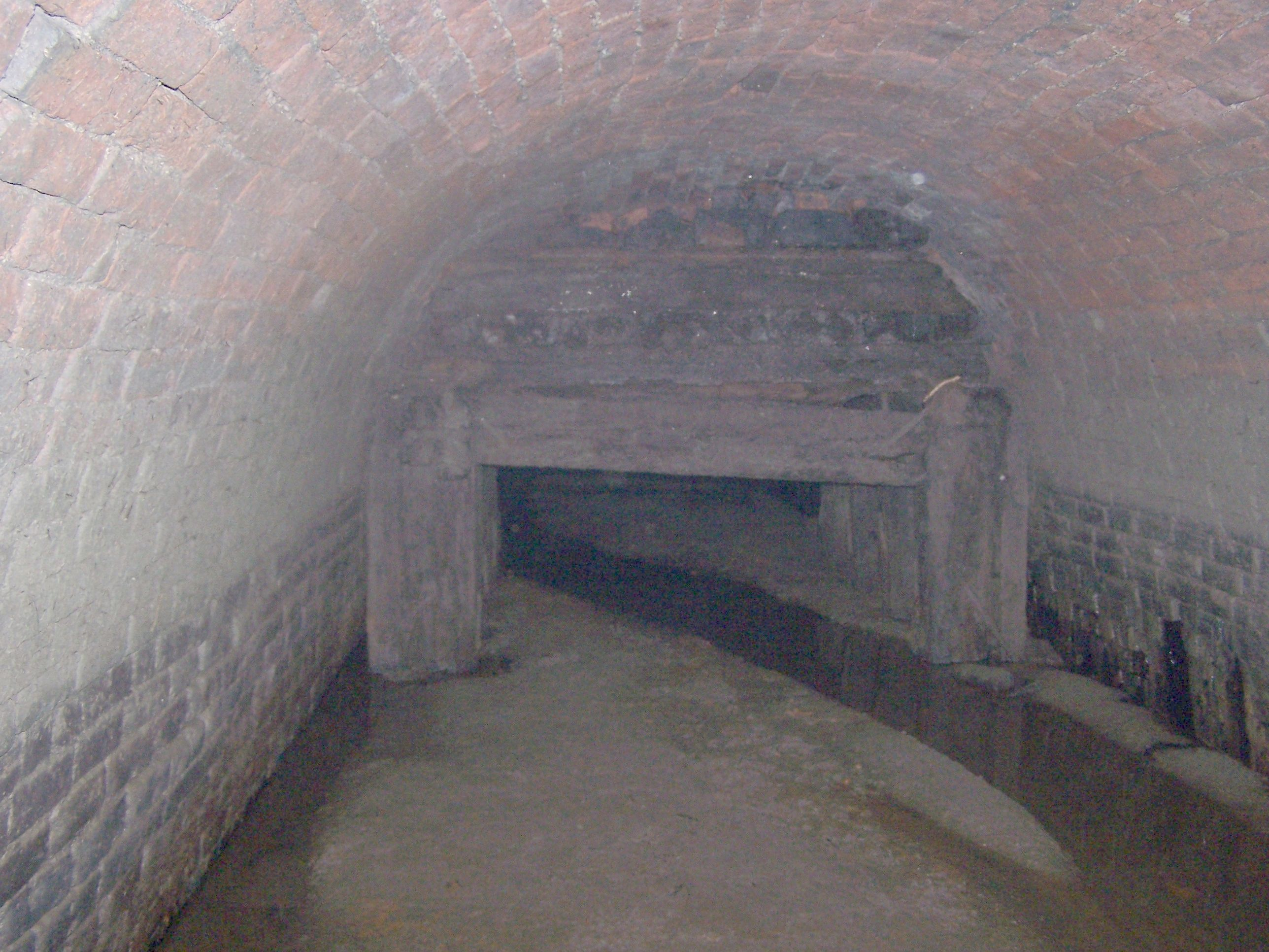 Author: Tina Cordon, Source: Own Picture Tina Cordon 19:11, 14 October 2006 (UTC)